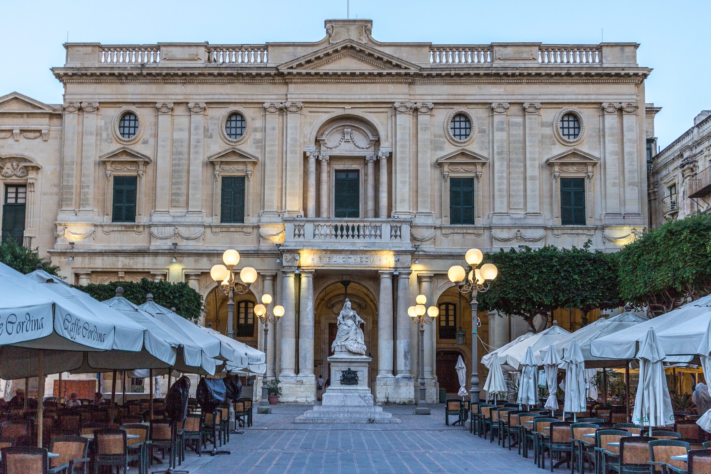 This media is about Maltese cultural property with inventory number 01141.